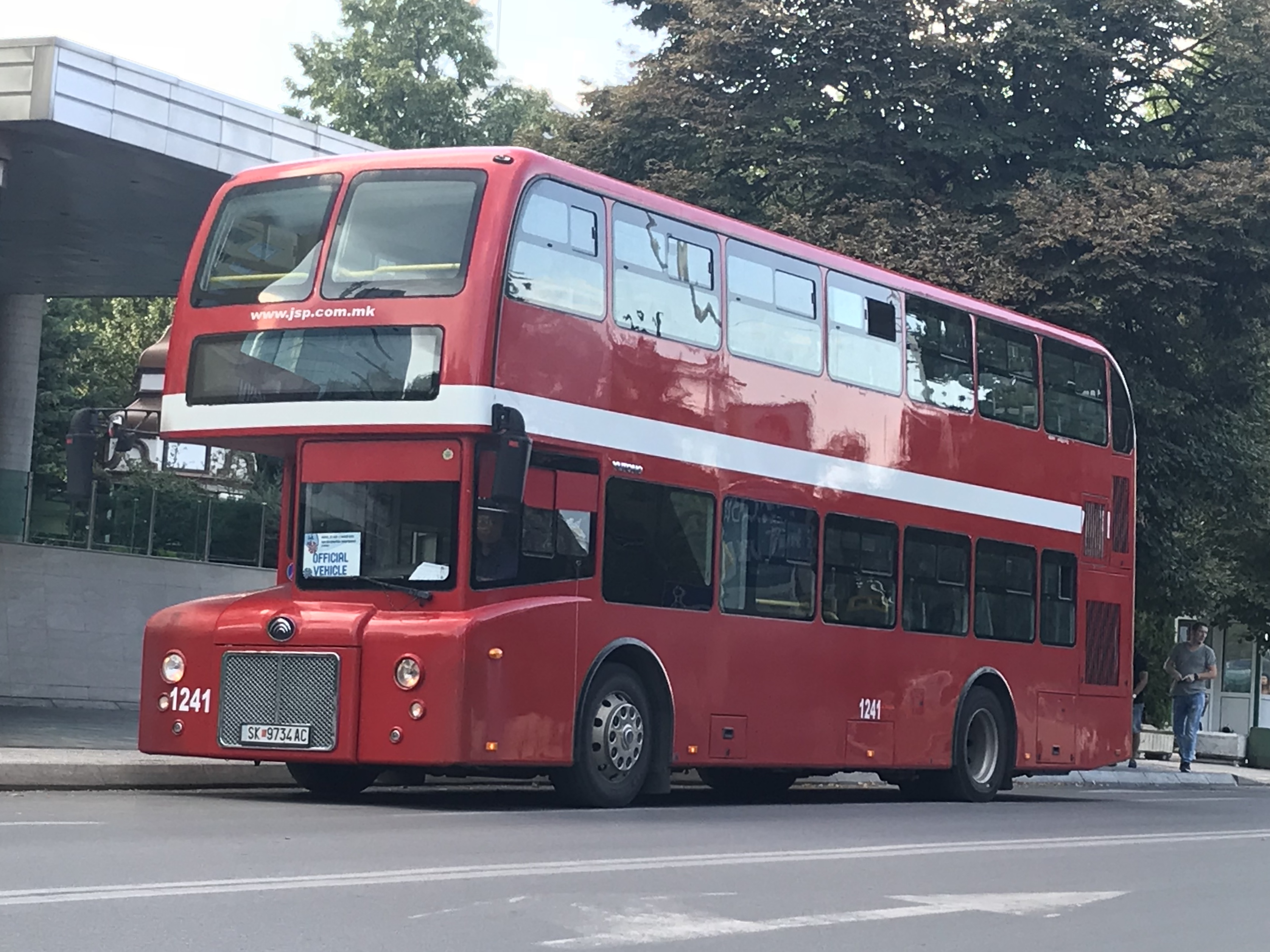 Yutong City Master (SK 9734-AC) in Skopje